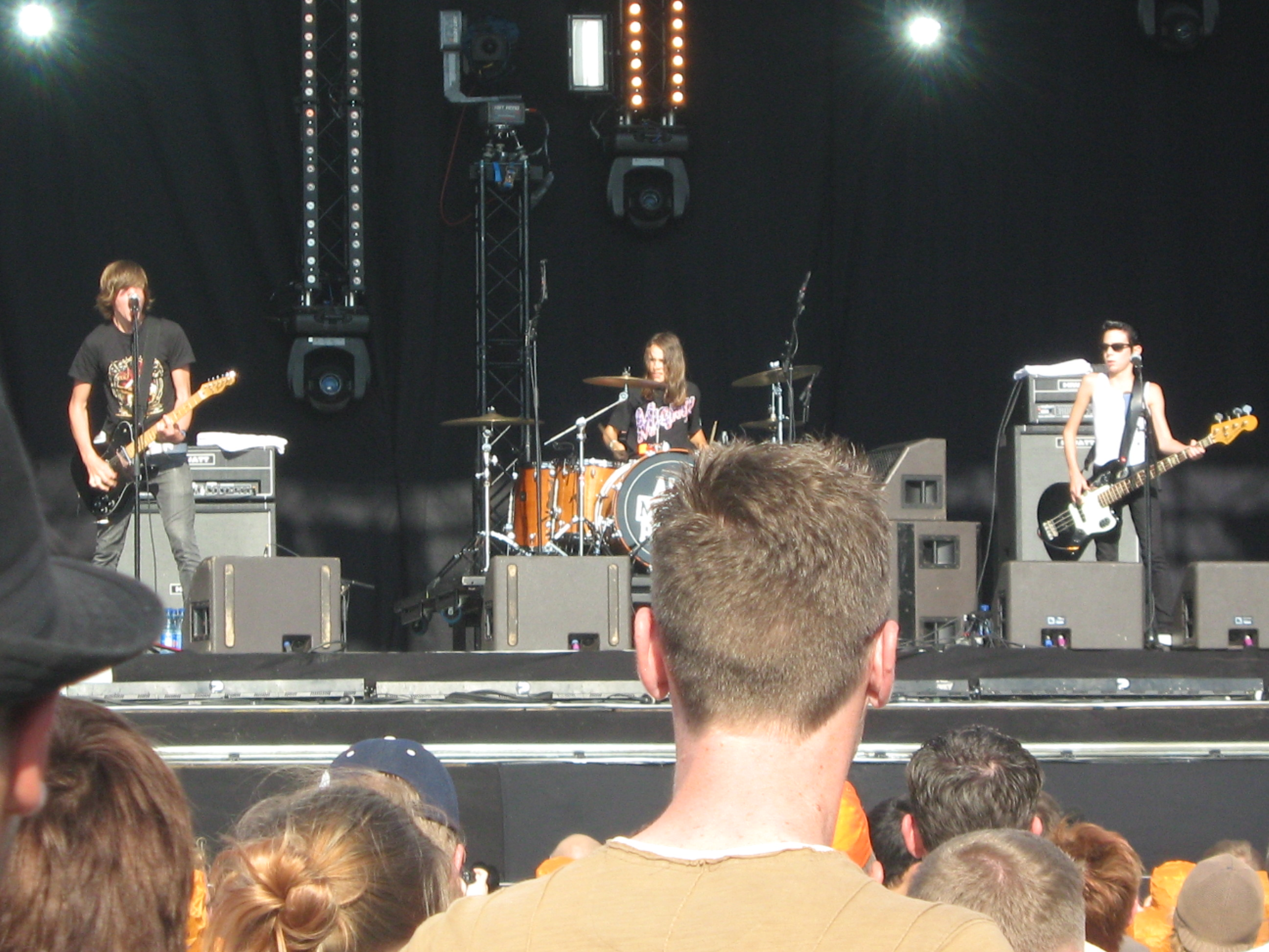 All Missing Pieces on Beatstad